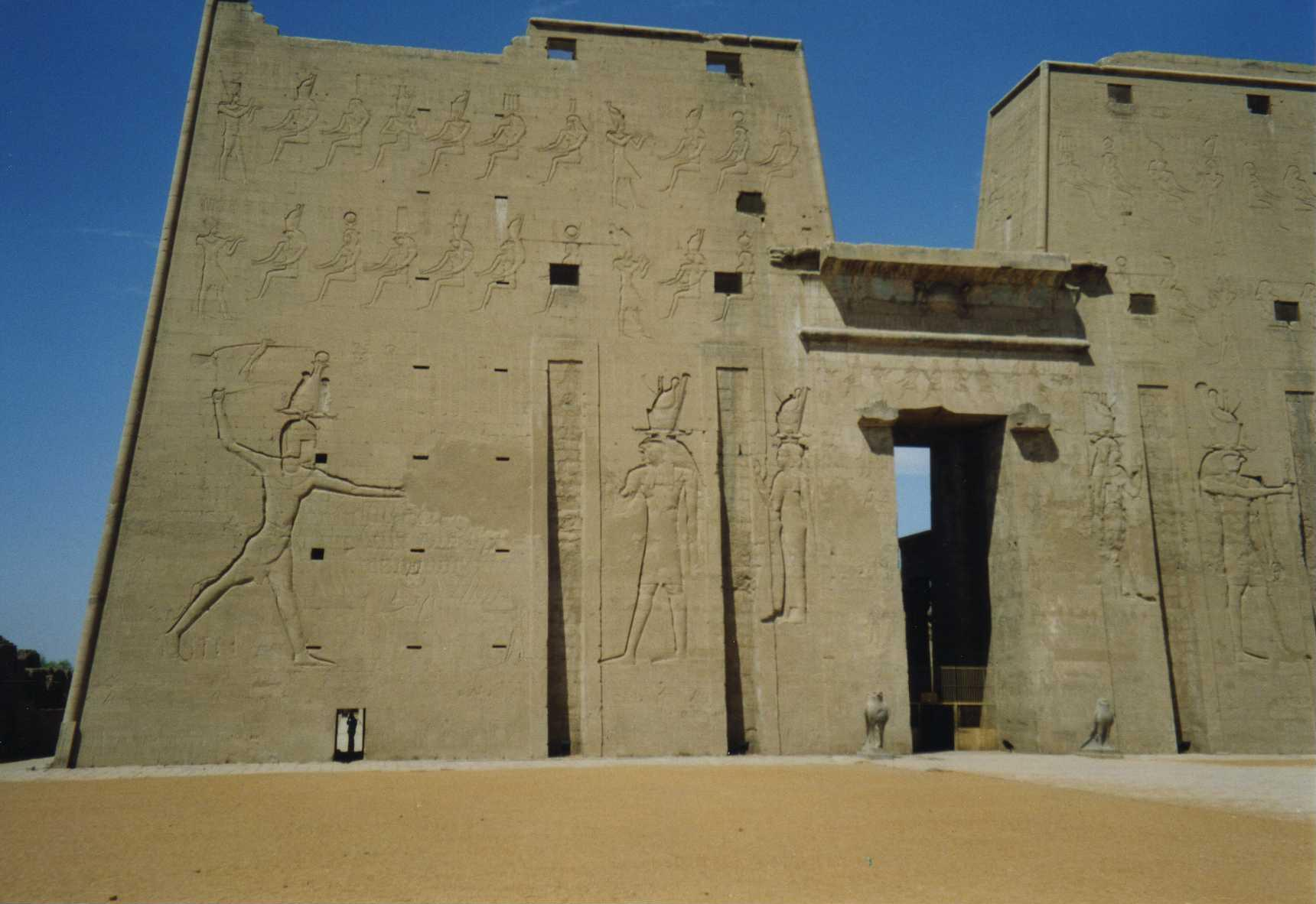 Left side of Edfu Temple Pylon